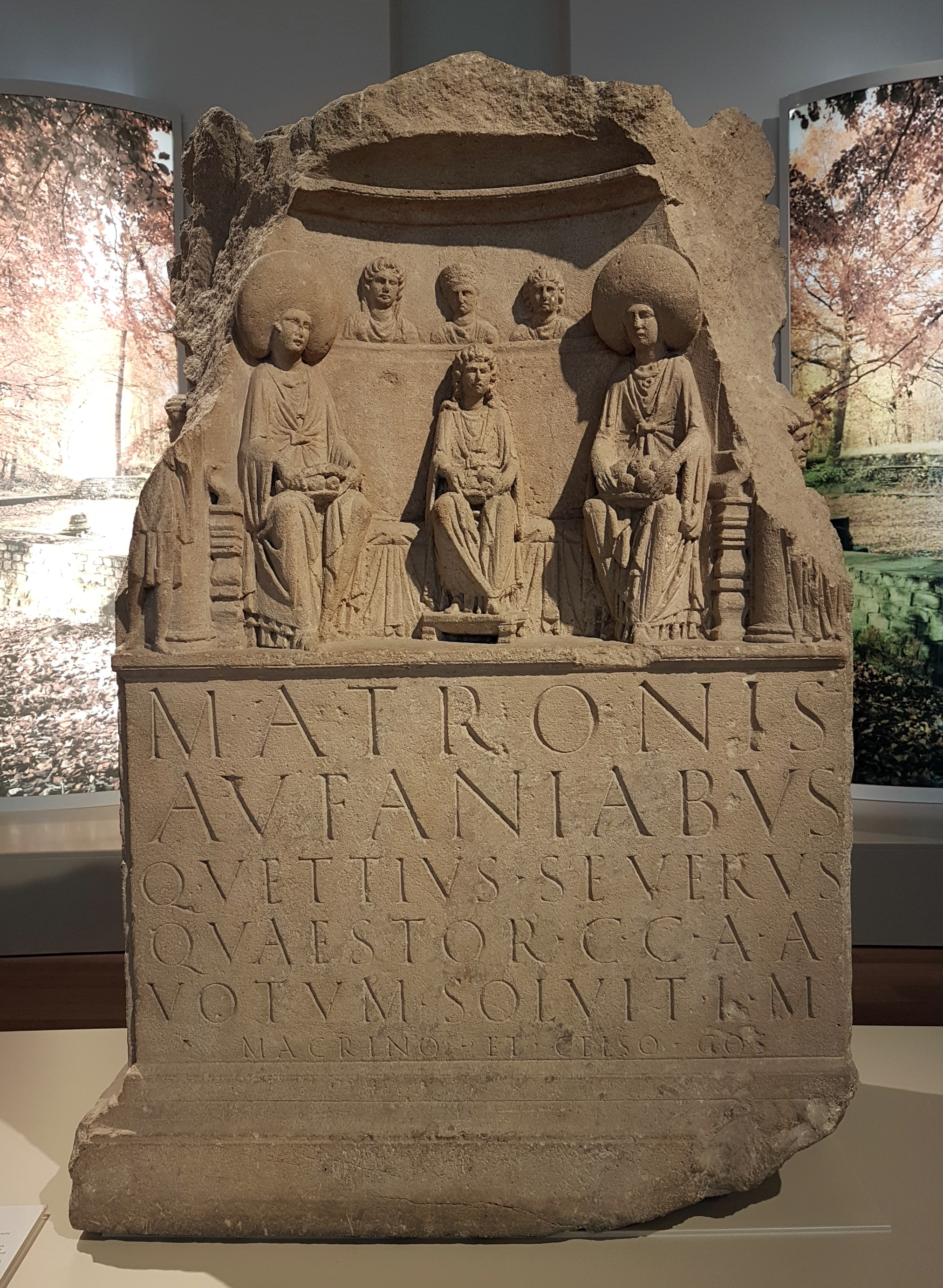 Matronae altar (164 AD) excavated in Bonn Minster, now in the Rheinisches Landesmuseum in Bonn, Germany. The three Matronae Aufaniae are sitting on a bench and holding fruit baskets. Behind them the busts of two women and a man, perhaps the donors of the altar, Quintus Vettius Severus and his family. This type of matronae have been found in Bonn, Nettersheim and Xanten. AE 1930, 19 = AE 1939, 235: Matronis / Aufaniabus / Q(uintus) Vettius Severus / quaestor c(oloniae) C(laudiae) A(rae) A(grippinensium) / votum solvit l(ibens) m(erito) / Macrino et Celso co(n)s(ulibus)